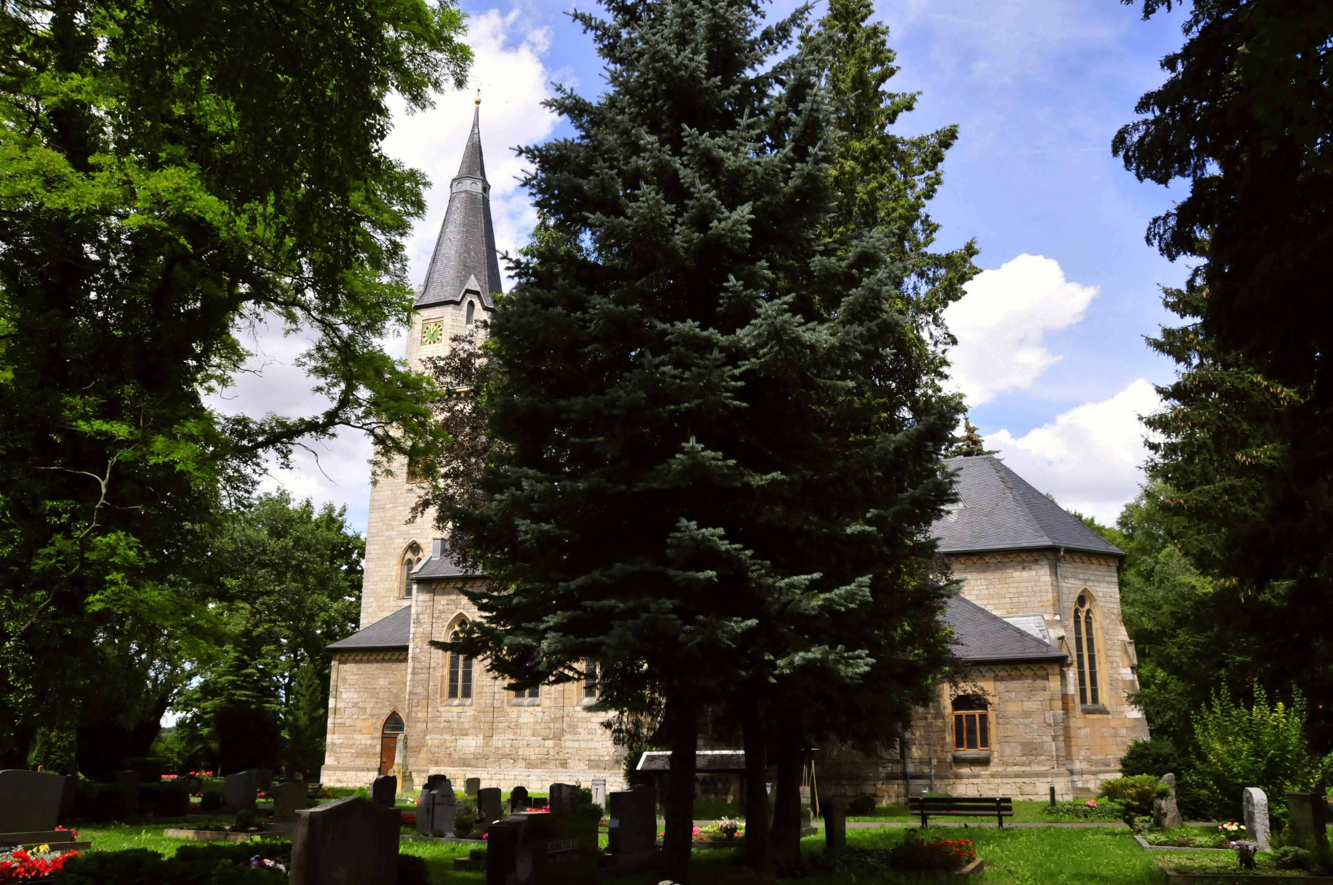 Sonneborn (Thuringia), church